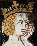 Bertha of Holland